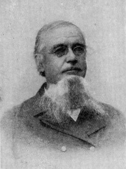 Pietari Päivärinta, Finnish writer and member of parliament